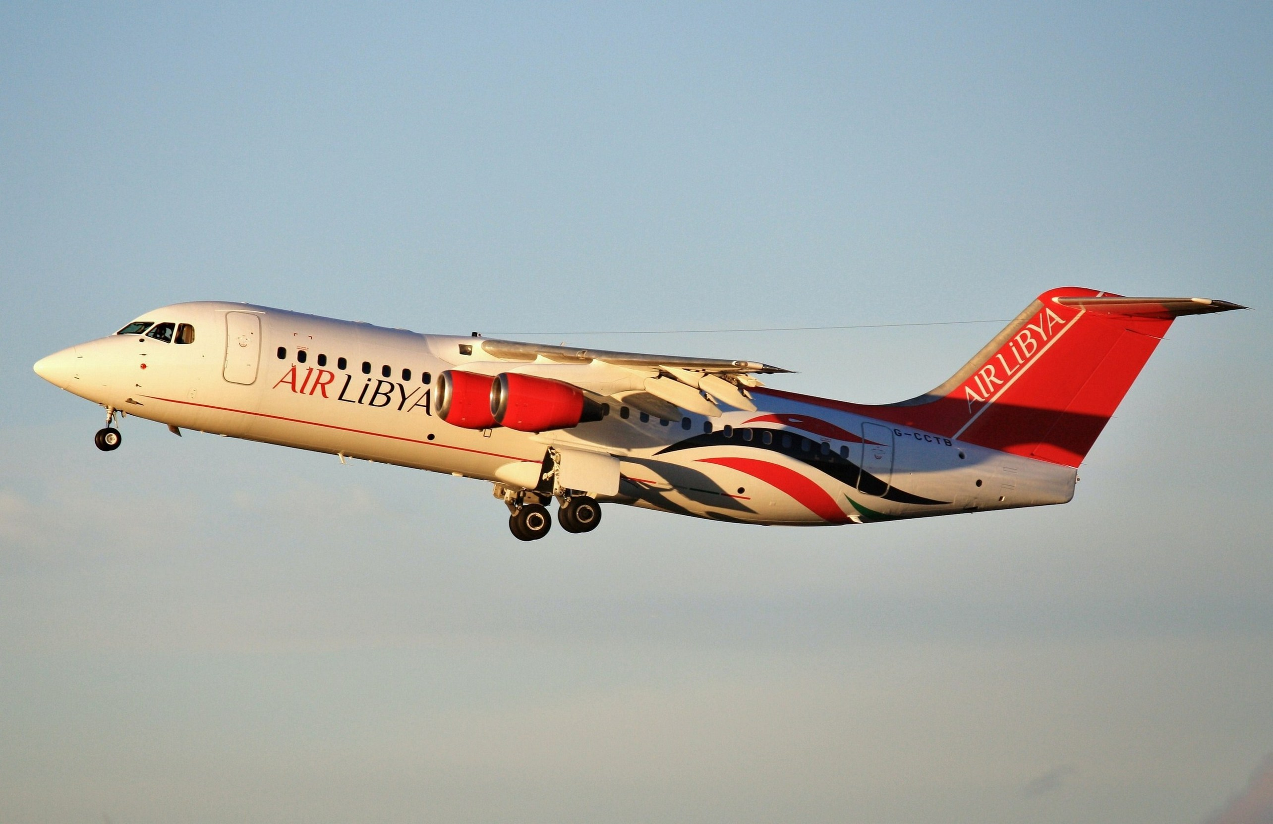 Photograph of newer Air Libya plane